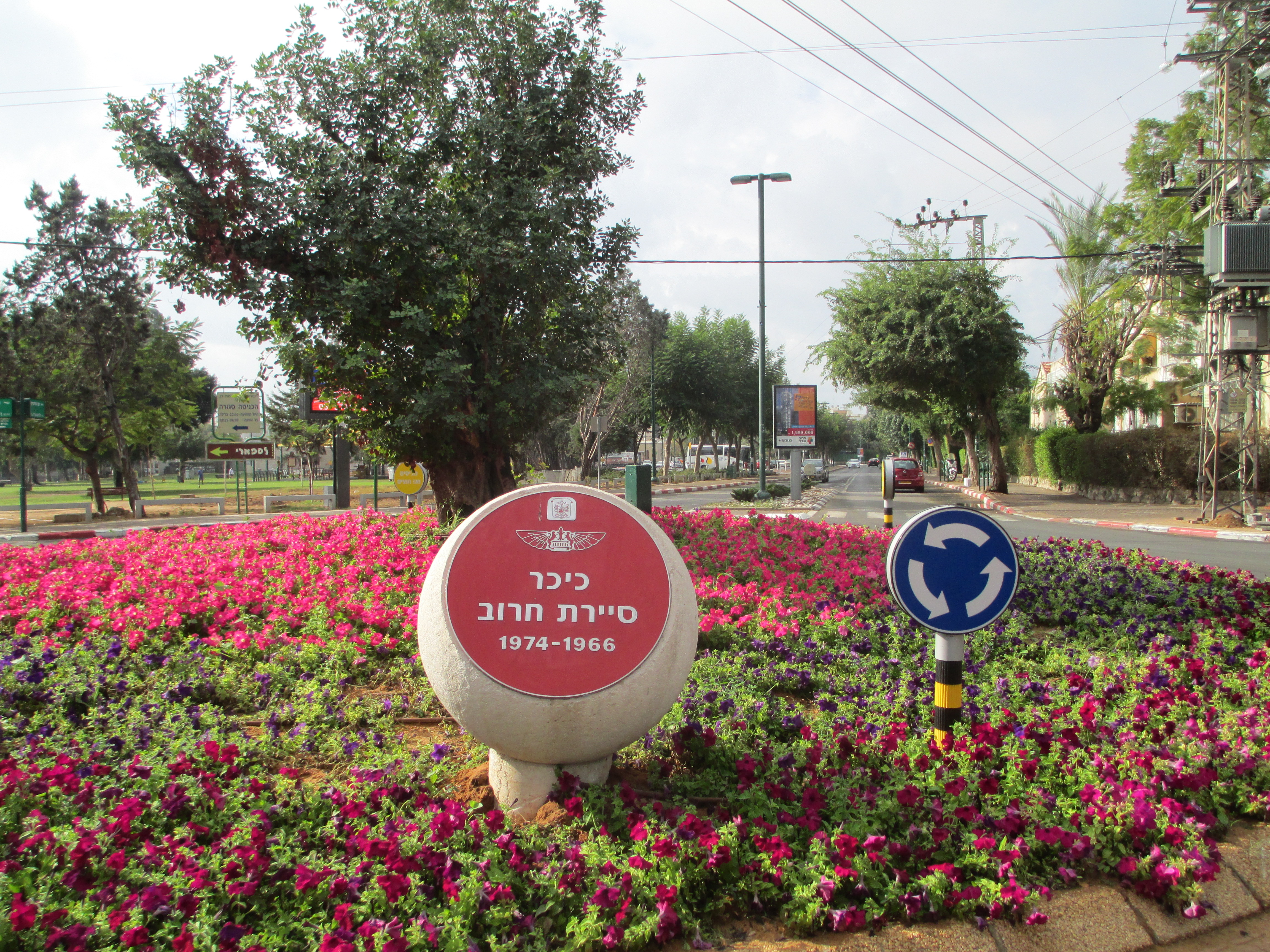 Sayeret Haruv square in Ramat Gan